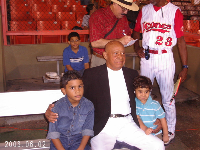 Emilio Navarro with his great grandsons, left (Eric Luis Navarro) right (Eric Francisco Navarro), in the opening game of the "Leones" of Ponce where he played.